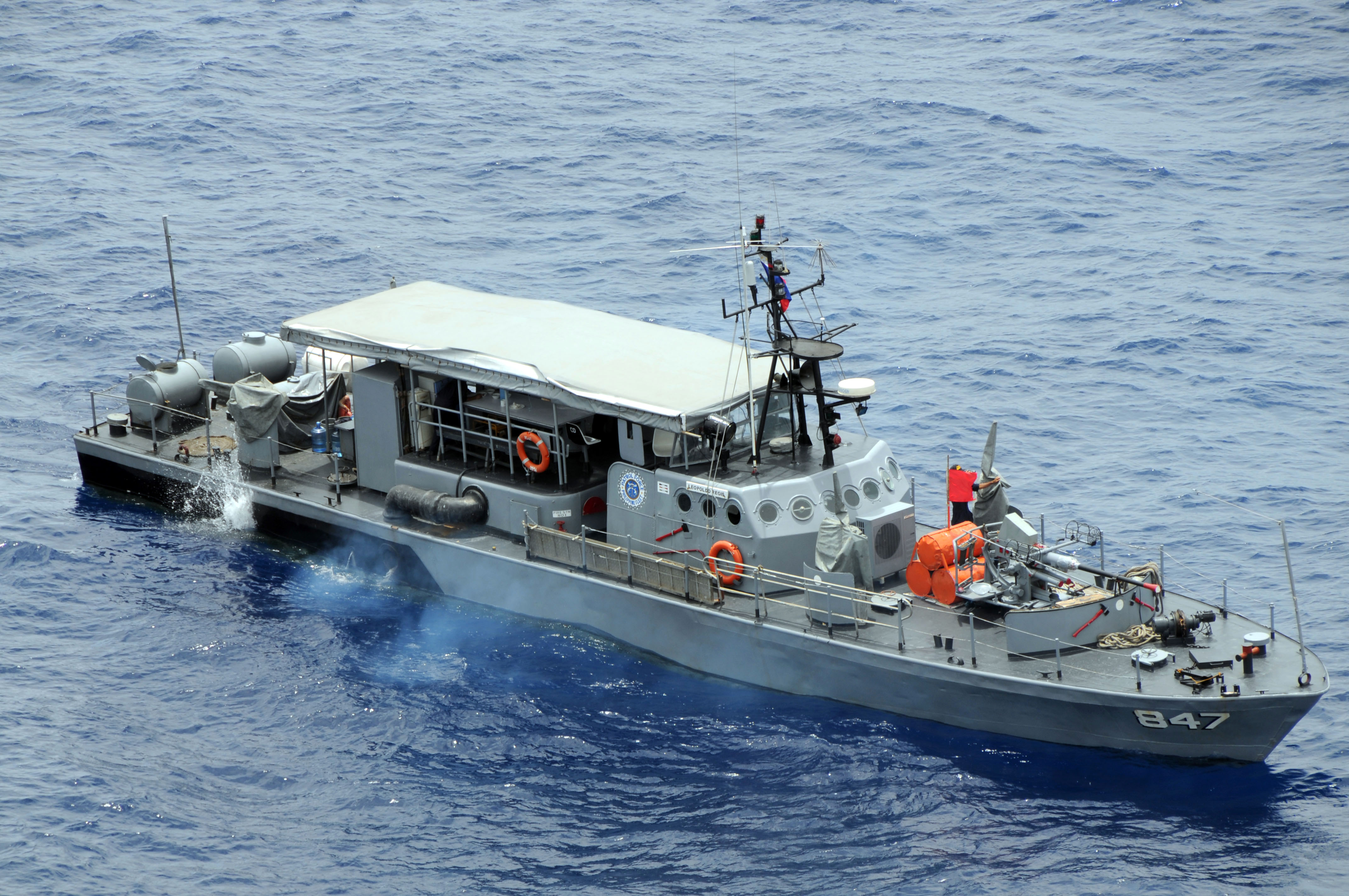 SOUTH CHINA SEA (April 21, 2009) The Armed Forces of the Philippines Navy patrol boat BRP Leopoldo Regis (PG-847) maneuvers into position at the head of a formation exercise with the amphibious assault ship USS Essex (LHD 2) during exercise Balikatan 2009. Leopoldo Regis is participating in Balikatan 2009, an annual combined, joint-bilateral exercise involving U.S. and Armed Forces of the Philippines personnel, as well as subject matter experts from Philippine civil defense agencies. (U.S. Navy photo by Mass Communication Specialist 2nd Class Mark R. Alvarez/Released)